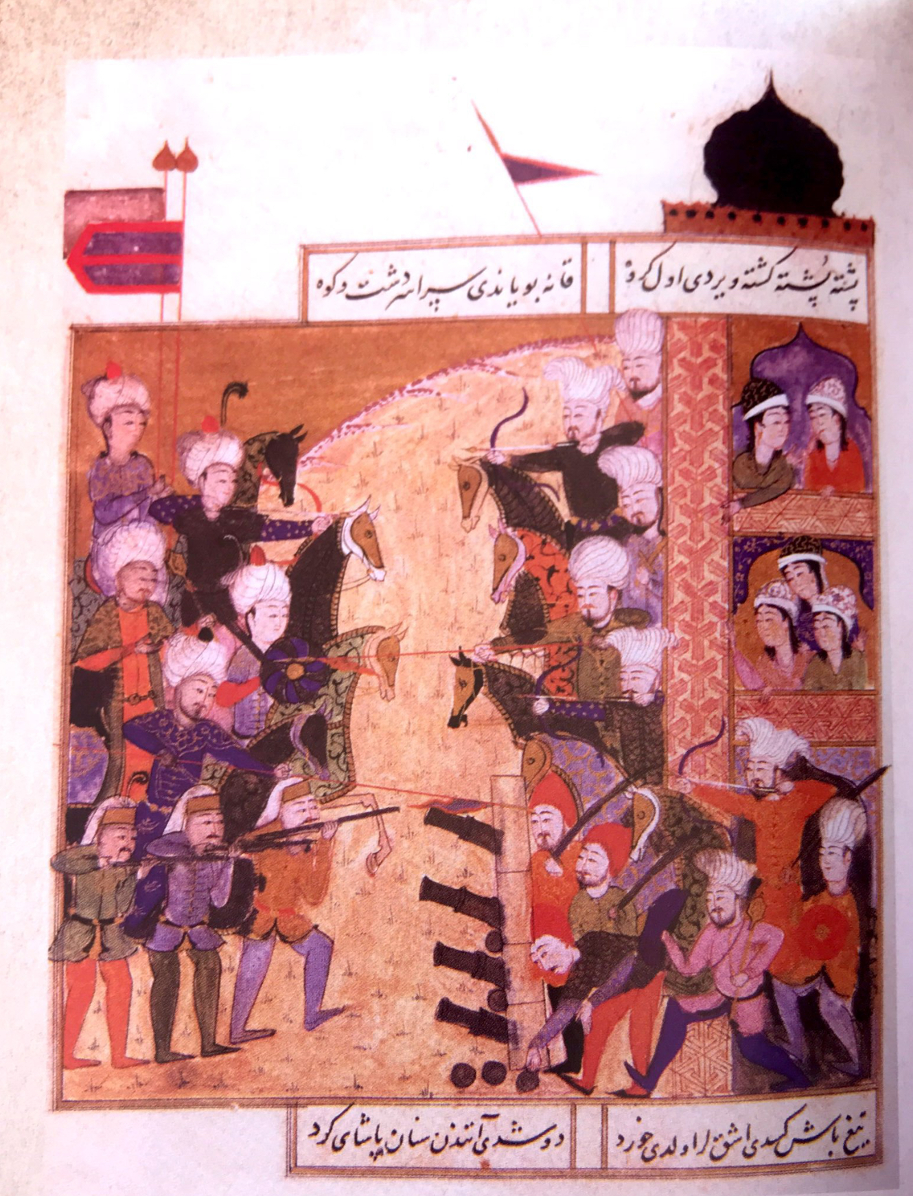 Nicolle: "Here, in an Ottoman manuscript painted five years after the event, the Ottomans attack Mamluk Damascus in 1516. The cavalry of both sides are similarly equipped, although the mamluks on the right have different and more varied turbans. Three typical Janissary handgunners fire from the left, while three mamluks with their zamt hats operate cannon in the centre. One of these gunners also wears a mail shirt, as do two mamluk horse-archers. (Topkapi Lib., Ms. Haz. 15978, f.235r)" (David Nicolle. The Mamluks 1250-1517 ). But it is NOT 1516, may be it is 1521.